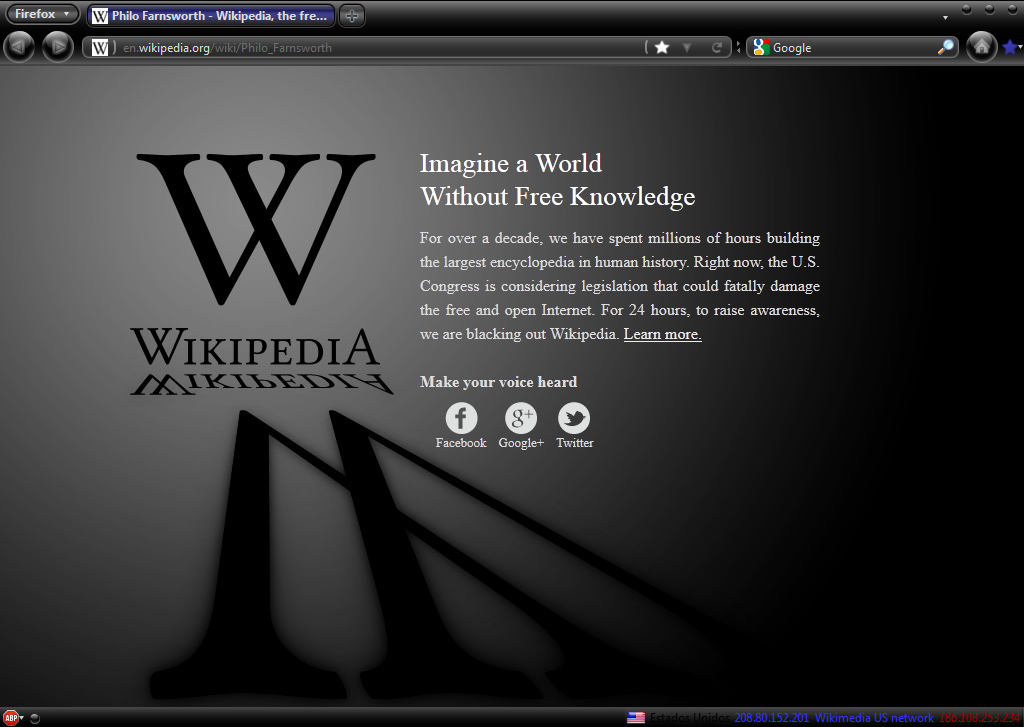 screenshot of wikipedia blackout